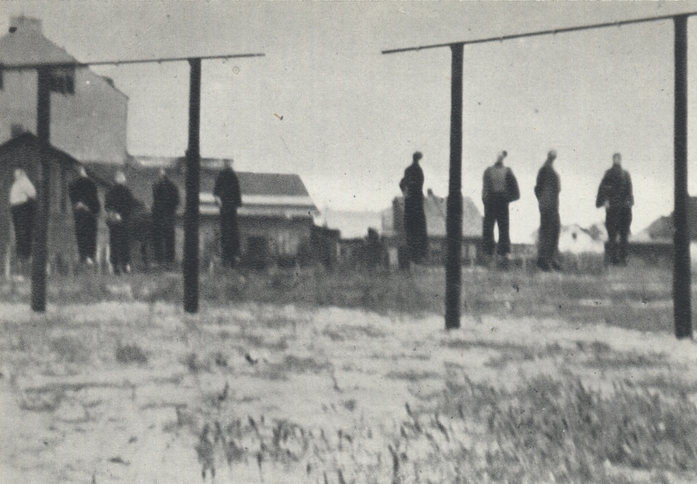 Public execution of Polish hostages in German-occupied Poland. Rembertów near Warsaw, 16th October 1942.